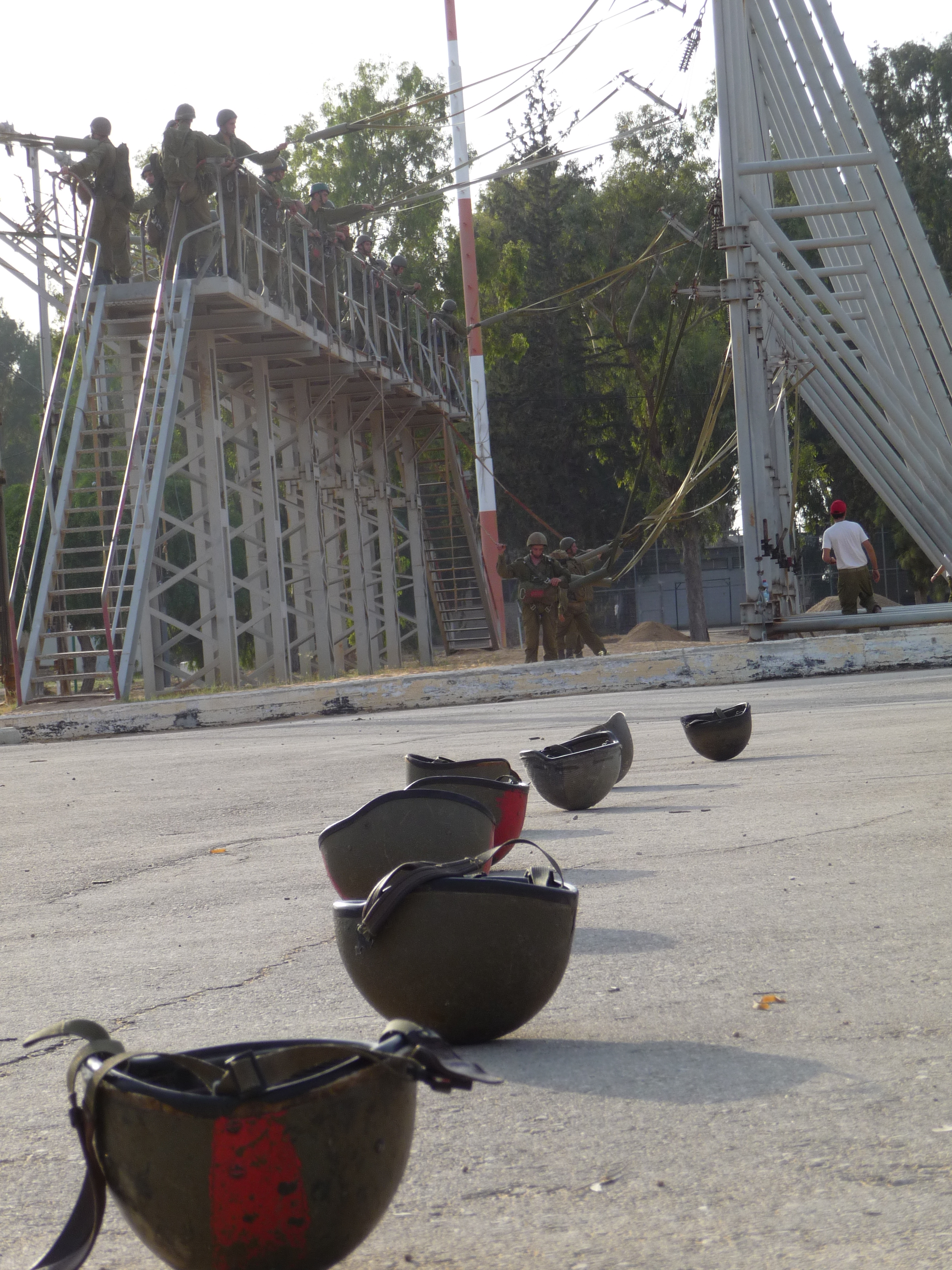 The Marhom base in Israel.